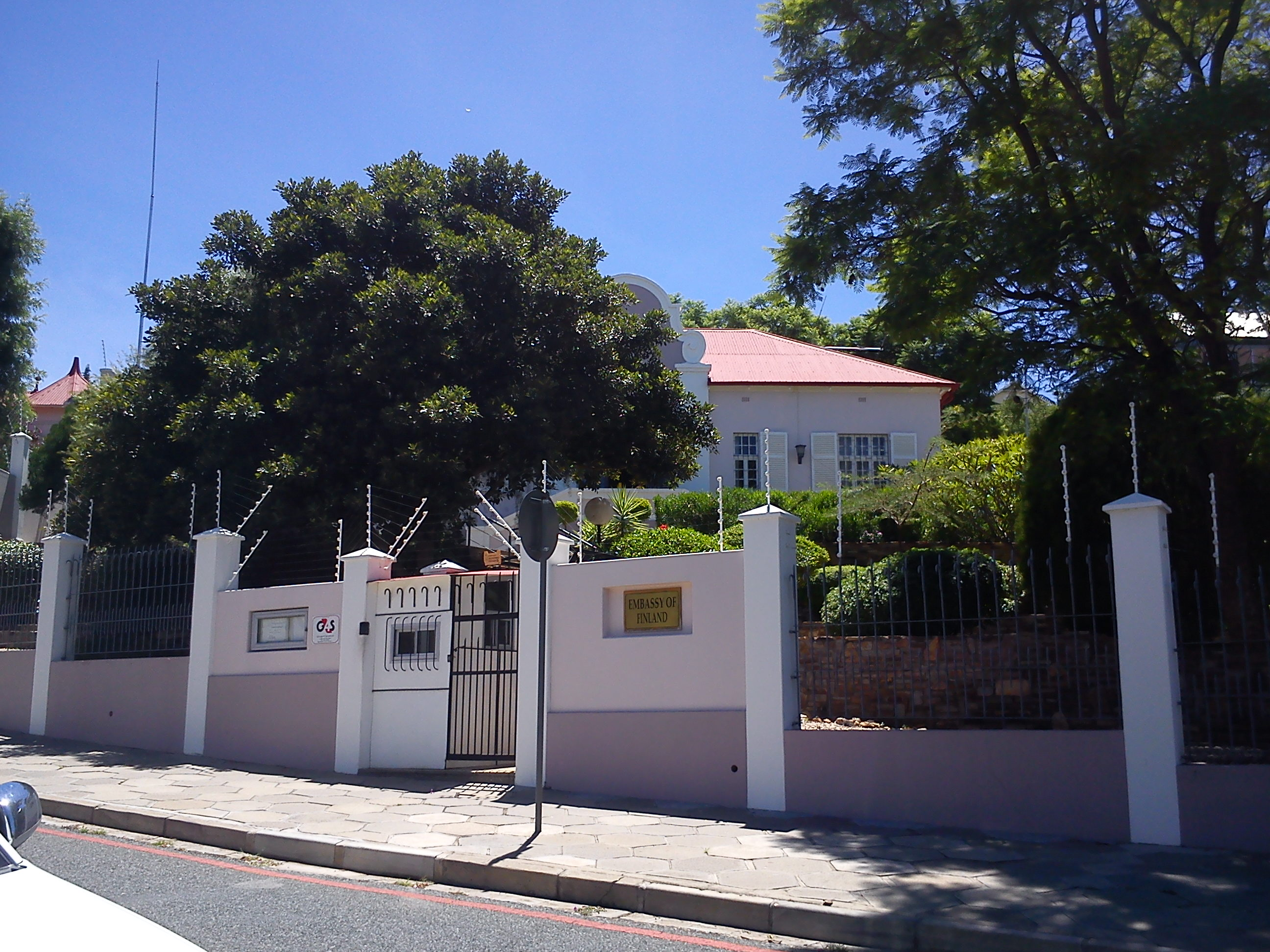 FI in NA